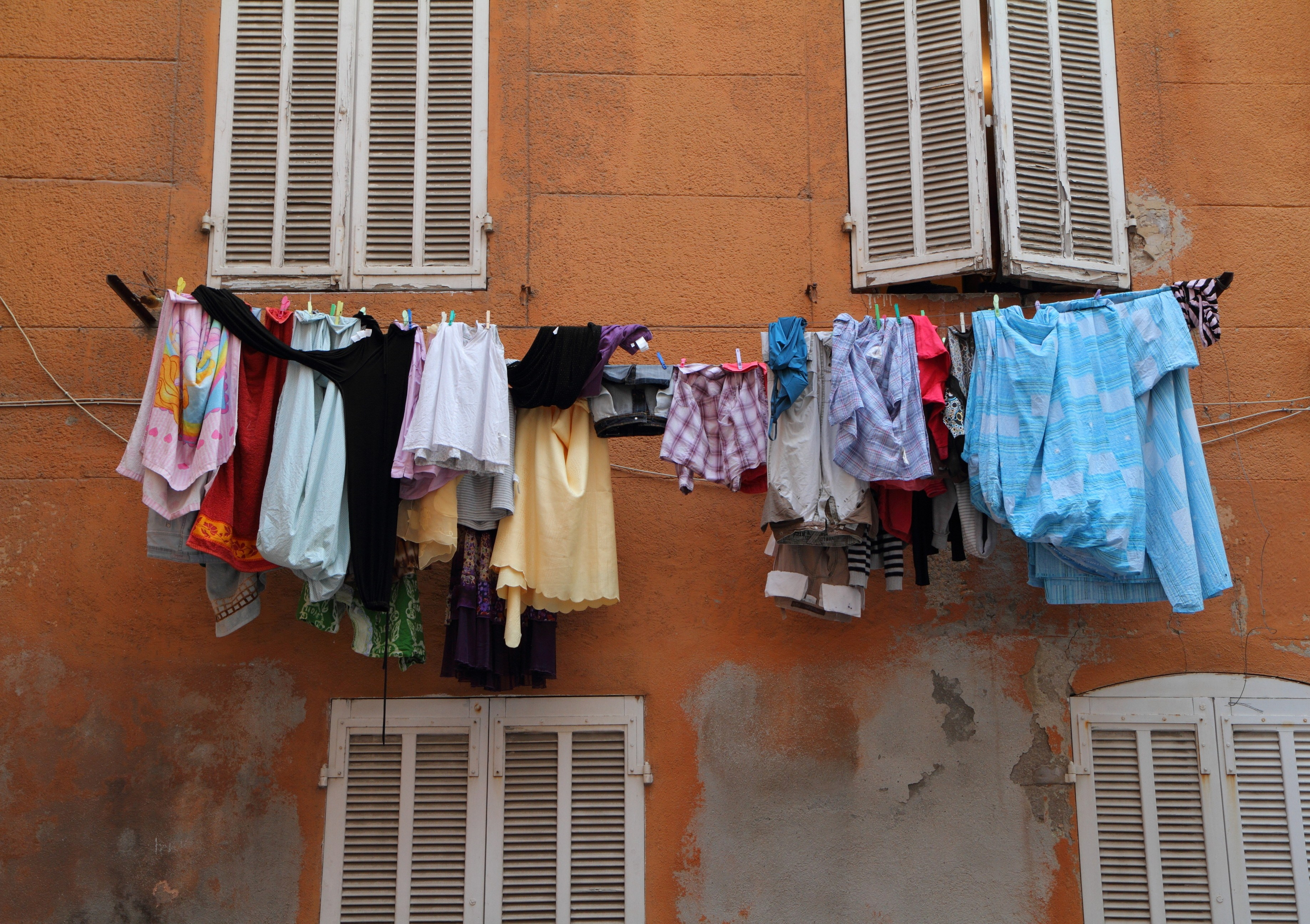 Laundry hung out to dry in the Panier district of Marseille, France